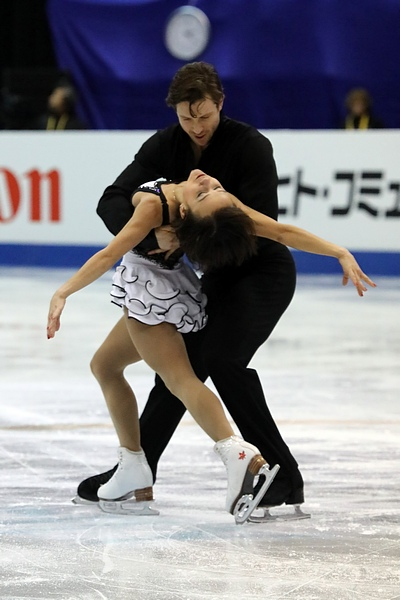 Dylan Moscovitch and Liubov Ilyushechkina at the 2018 Four Continents Figure Skating Championships.